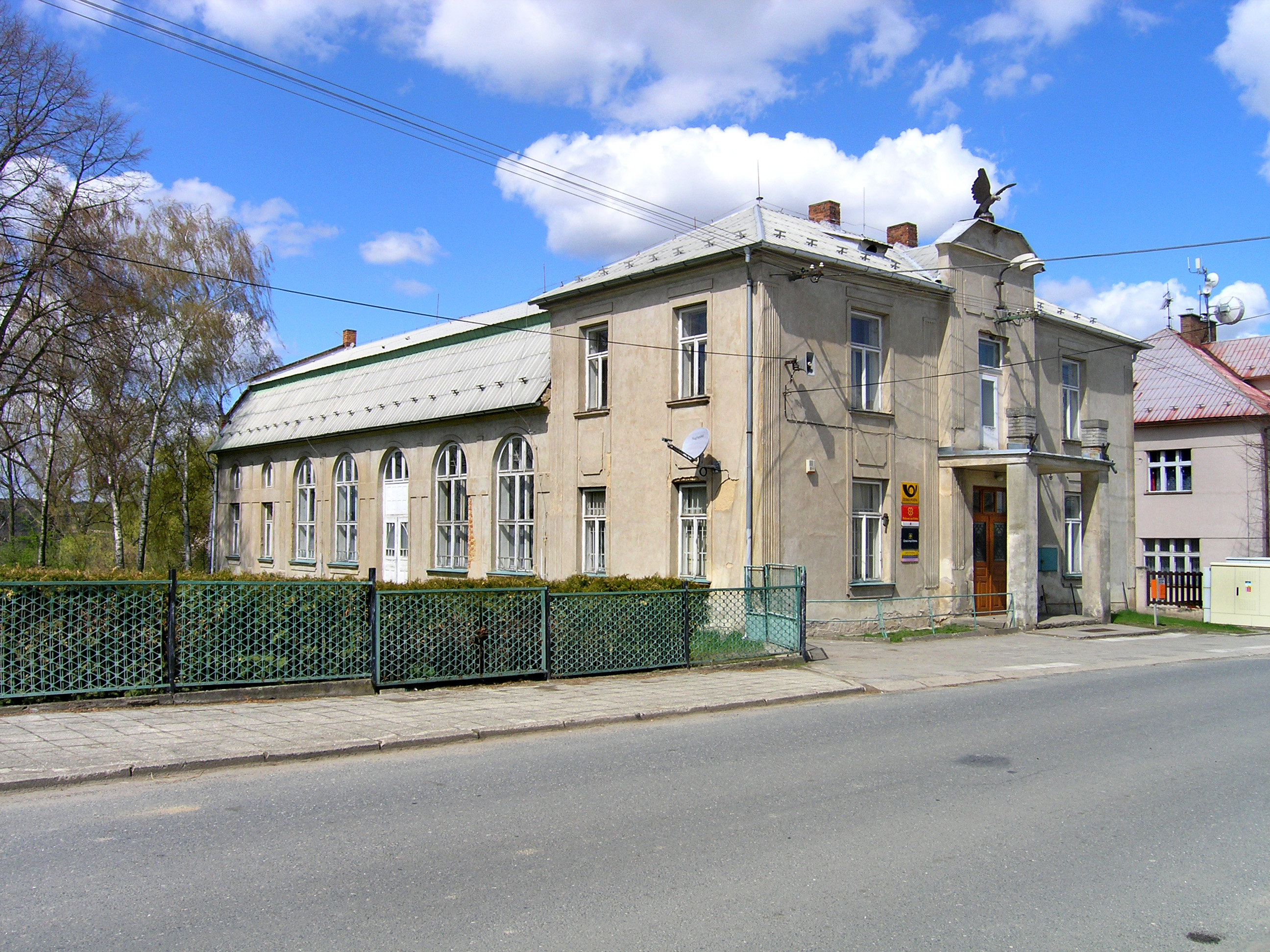 Post office in Horní Kruty village, Czech Republic